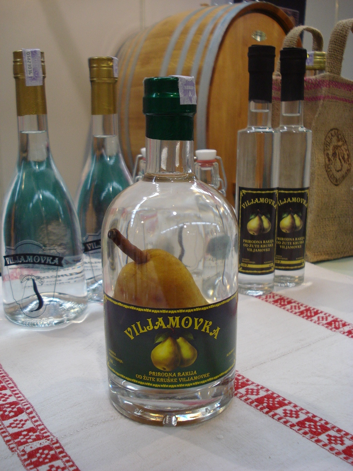 Williams pear rakia (brandy), alcoholic beverage, made in Medjimurje County (Croatia)